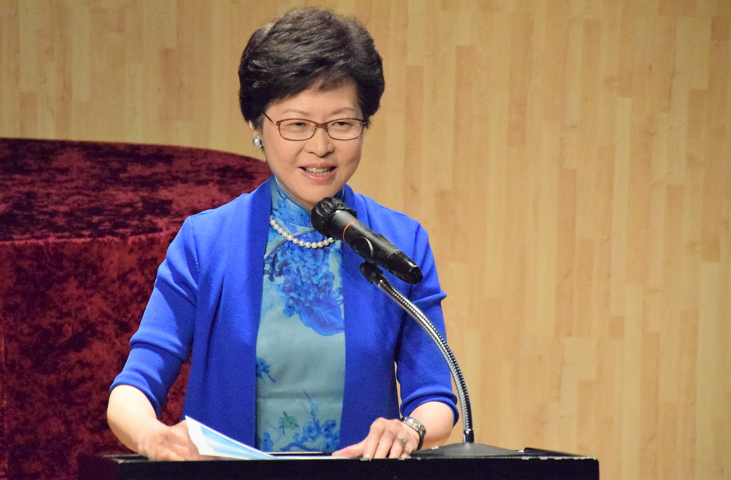 Carrie Lam, Secretary for Administration